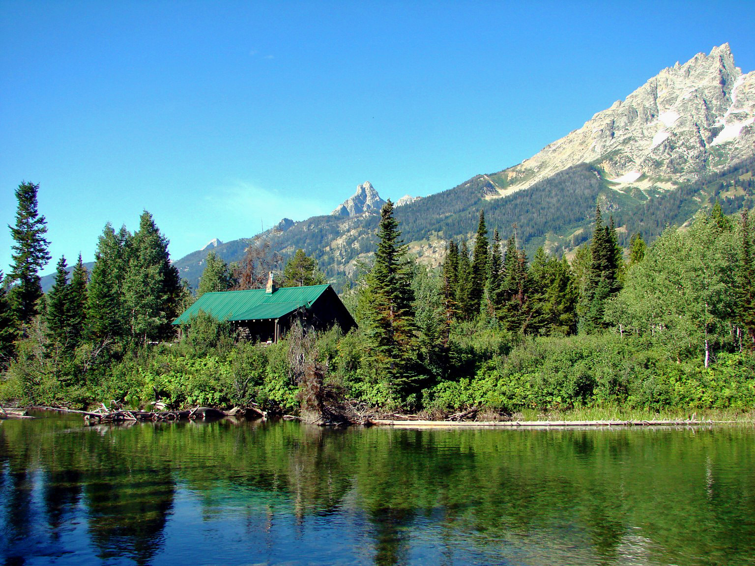 (1 in a multiple picture set) This cabin on Jenny Lake, at the base of the Teton, was originally used by Kenneth Reimer who took over the boat concession on the lake in 1935 (the boating goes back to 1920). He was also caretaker for the area. It must have been a beautiful place to live in the summer, but would have been nearly covered in snow during the winter. It is now a bookstore used by the National Park Service. Jenny Lake may be the prettiest setting for any body of water in the USA.